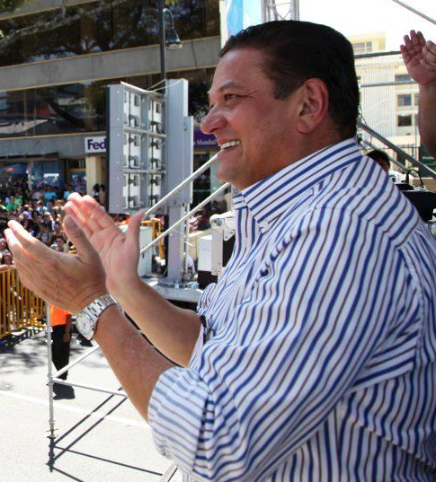 Johnny Araya at the Chepe Joven festival 2011 (cropped)